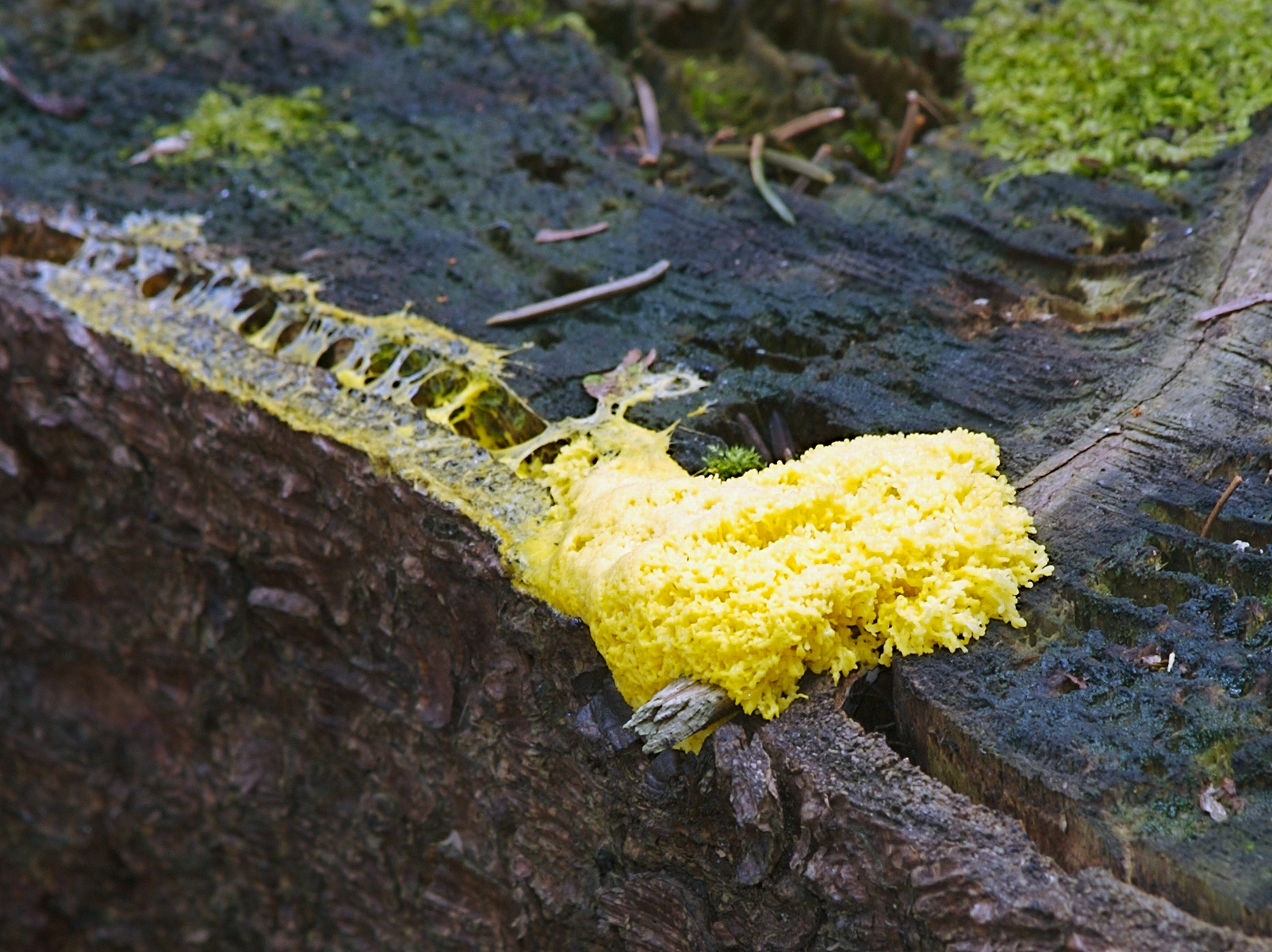 Fuligo septica, Burkhardtsdorf, Germany